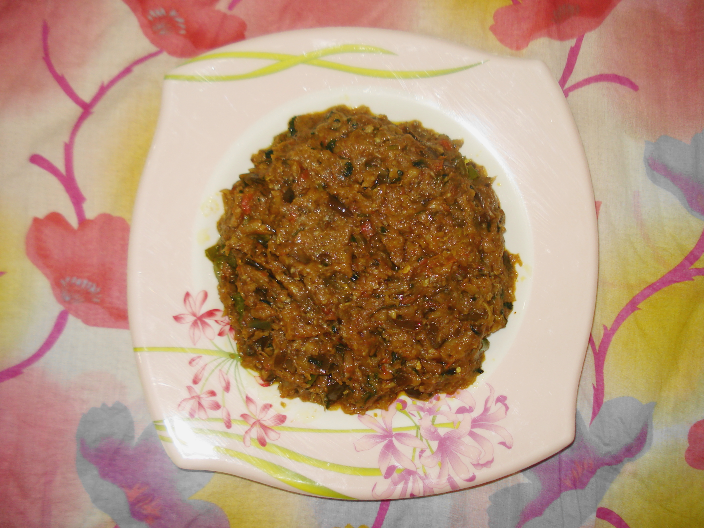 Mashed Brinjal